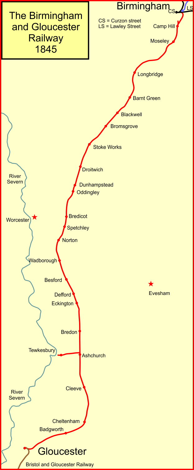 System map of the Birmingham and Gloucester Railway, England, in 1845